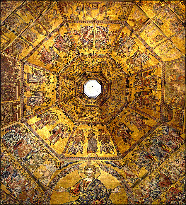 Mosaic ceiling inside Baptistry of St. John, Florence